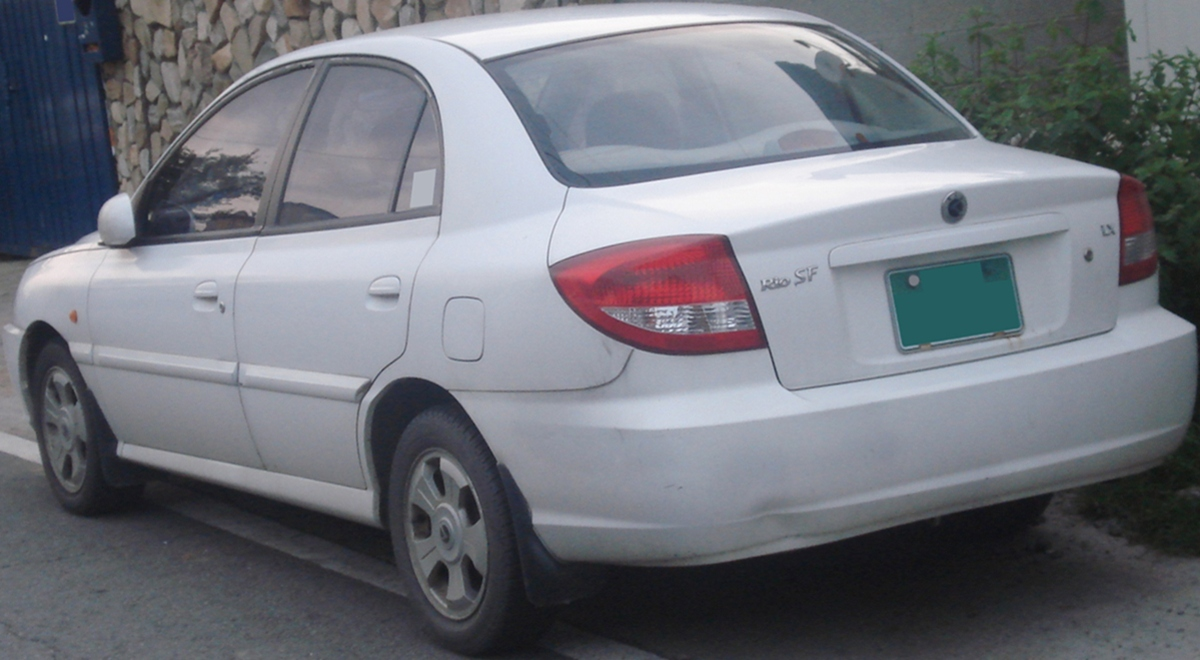 Kia Rio